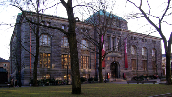 Museet for samtidskunst, Oslo. Built as Norway's National Bank's headquarter 1901-1906. Architect Ingvar Hjorth.